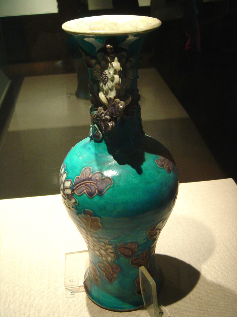 This porcelain vase is a Susancai porcelain (Ming Dynasty, 1368 — 1644).